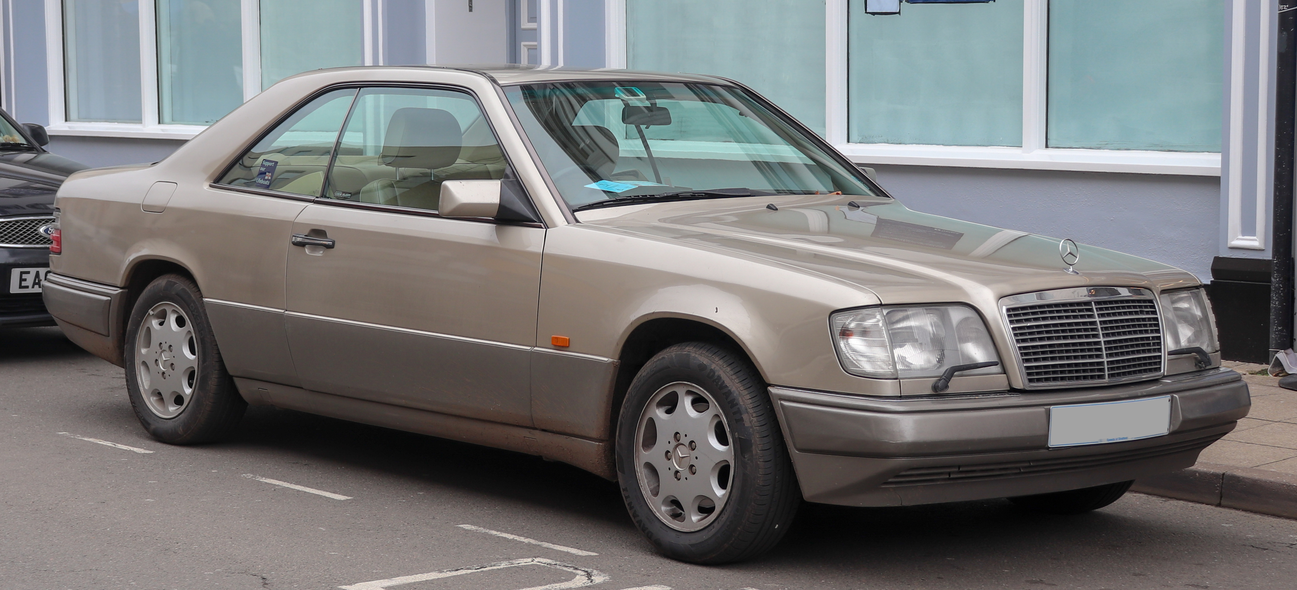 1995 Mercedes-Benz E320 Automatic 3.2 Front Taken in Leamington Spa